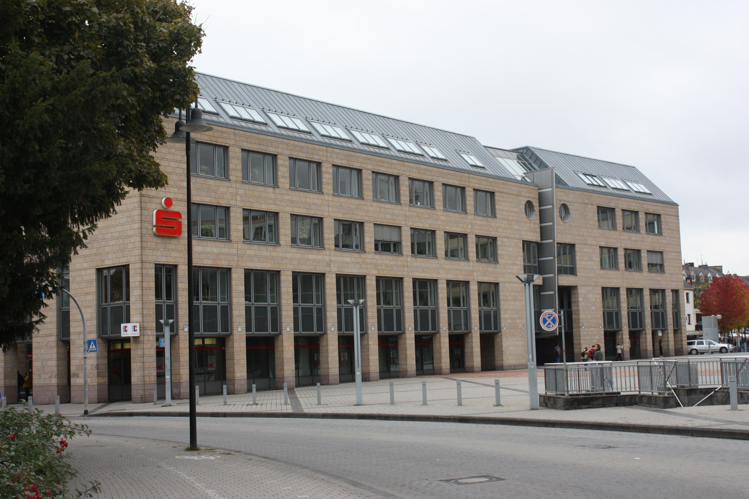 Trier -Sparkasse on the Viehmarktplatz